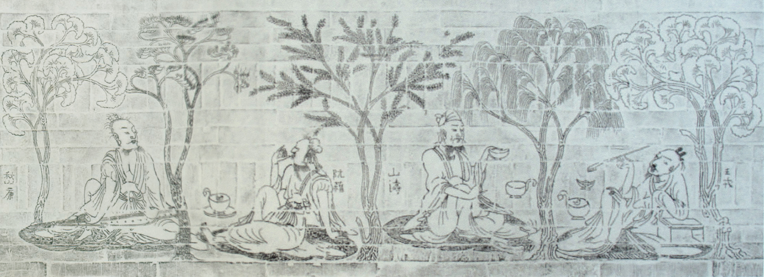 Stamped molded-brick mural, identified as the "Seven Sages of the Bamboo Grove and Rong Qiqi", one of two walls apart of the coffin found in a tomb of the capital region of the Southern dynasties (5th-6th. c.), second half of the fifth century, at Xishanqiao, near Nanjing. 88 x 240 cm. Nanjing Museum. This part of the murals may reflect a composition of the famous Lu Tanwei, considered as the single greatest painter of all times by the chinese critic Xi He (act. 500-536) : ref. from China : Dawn of a Golden Age, 200-750 AD, The Metropolitan Museum of Art, Yale University Press 2004. We can recognize Ji Kang (223-262), on the left, under a gingko tree.